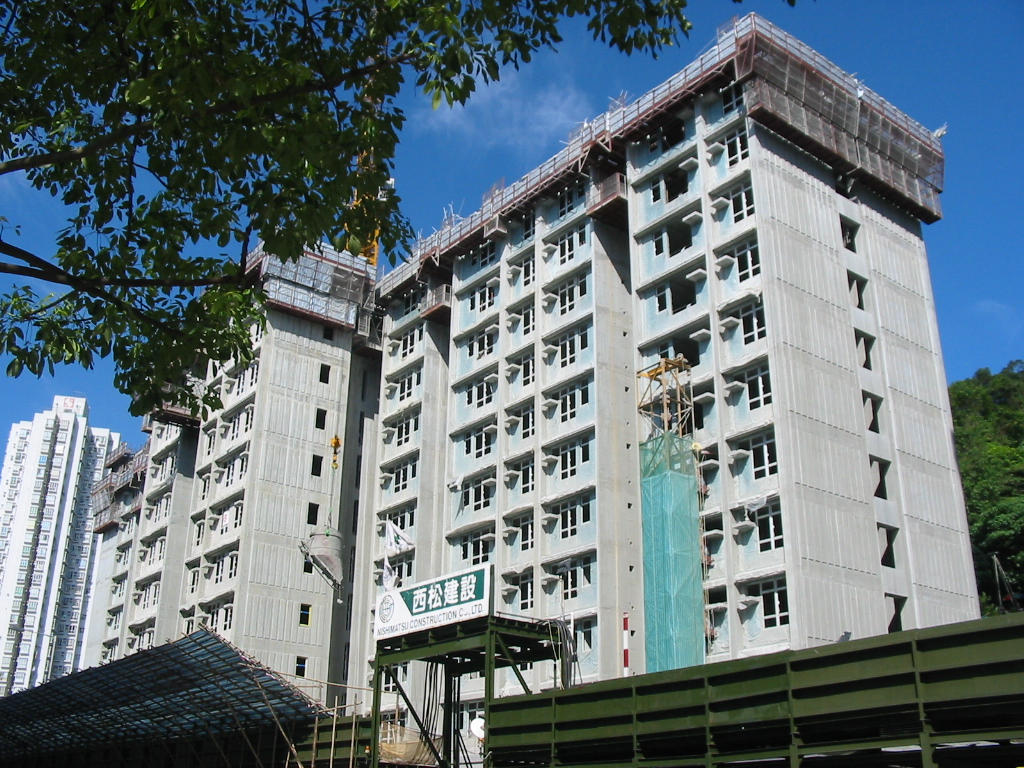 Block 2, New Chai Wan Estate under construction.